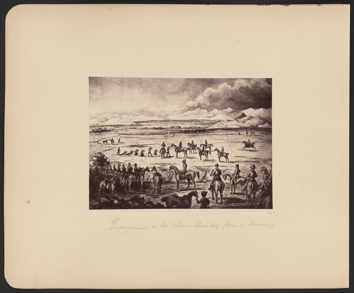 This photograph of a drawing of a military engagement near Khost (now Khowst), Afghanistan, is from an album of rare historical photographs depicting people and places associated with the Second Anglo-Afghan War. The identity of the artist is unknown. The image appears to show a skirmish in late 1878–January 1879 that involved the Kurram Valley Field Force fighting against unidentified Afghan adversaries. In the foreground are massed British cavalry and dragoons (mounted infantry), while ahead of them infantrymen fire upon the enemy in the distance. A section of the Hindu Kush mountain range rises up in the far background of the drawing. The Second Anglo-Afghan War began in November 1878 when Great Britain, fearful of what it saw as growing Russian influence in Afghanistan, invaded the country from British India. The first phase of the war ended in May 1879 with the Treaty of Gandamak, which permitted the Afghans to maintain internal sovereignty but forced them to cede control over their foreign policy to the British. Fighting resumed in September 1879, after an anti-British uprising in Kabul, and finally concluded in September 1880 with the decisive Battle of Kandahar. The album includes portraits of British and Afghan leaders and military personnel, portraits of ordinary Afghan people, and depictions of British military camps and activities, structures, landscapes, and cities and towns. The sites shown are all located within the borders of present-day Afghanistan or Pakistan (a part of British India at the time). About a third of the photographs were taken by John Burke (circa 1843–1900), another third by Sir Benjamin Simpson (1831–1923), and the remainder by several other photographers. Some of the photographs are unattributed. The album possibly was compiled by a member of the British Indian government, but this has not been confirmed. How it came to the Library of Congress is not known. Afghan Wars; Battles; Cavalry; Great Britain. Army; India. Army; Soldiers